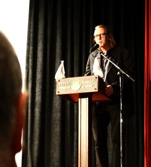 Rob Rombout workshop